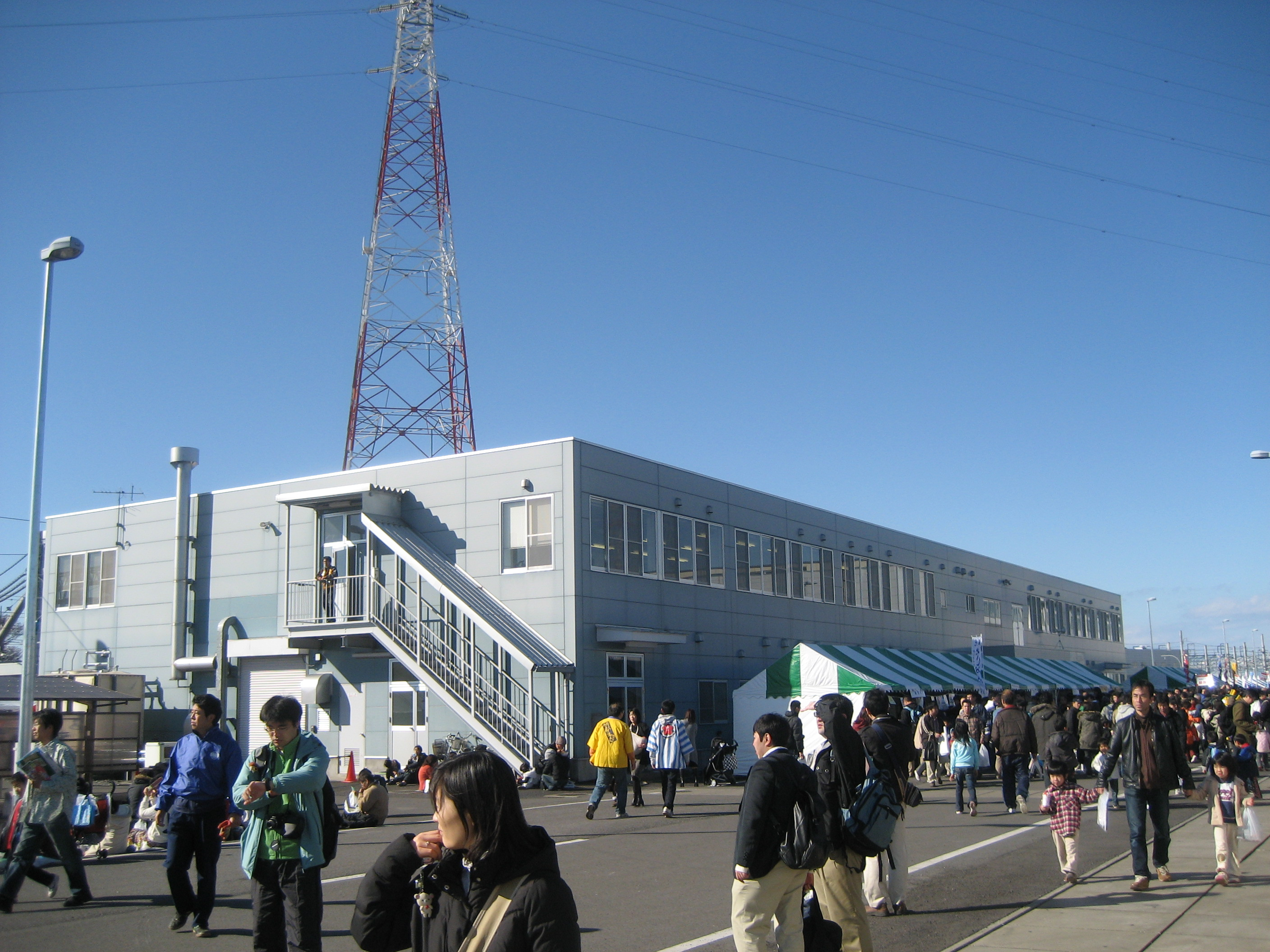 Office of Tobu Railway Minami-Kurihashi Depot